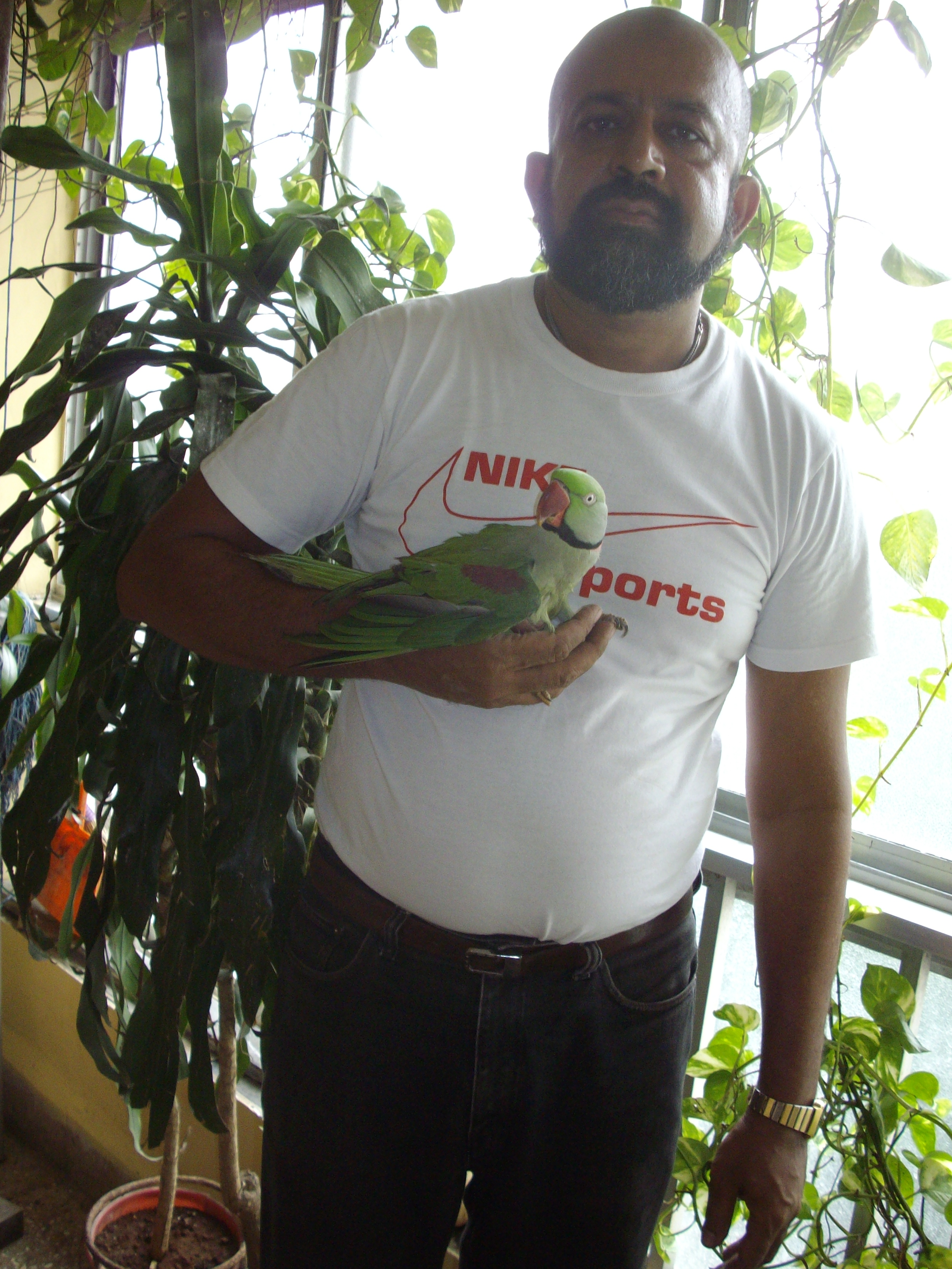 Rudolph A. Furtado with his pet Alexandrine Parakeet (also known as an Alexandrine Parrot) named Mittoo in the house garden balcony of Vaibhav Apartments, Mumbai.